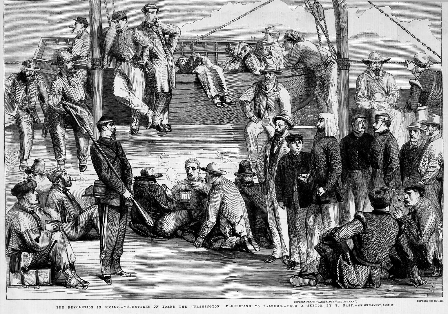 The revolution in Sicily-volunteers on board the "Washington" proceeding to Palermo - from a Sketch by T. Nast